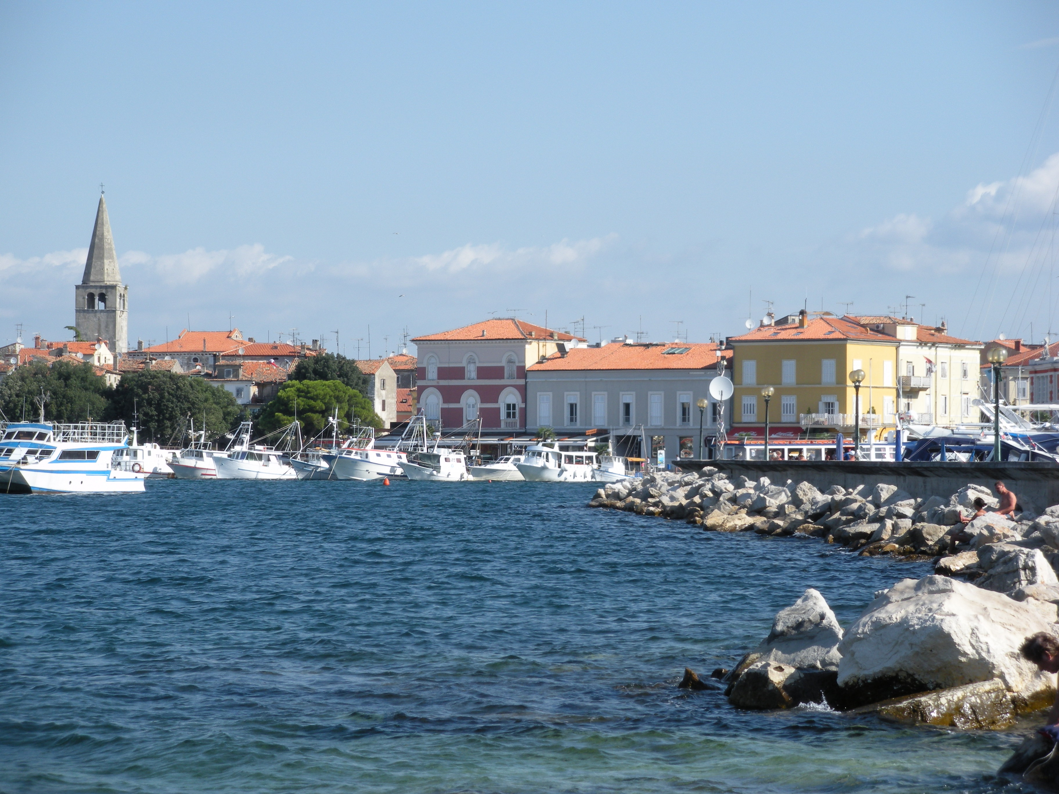 Porec, Croatia, harbour view, taken by uploader on visit 2008